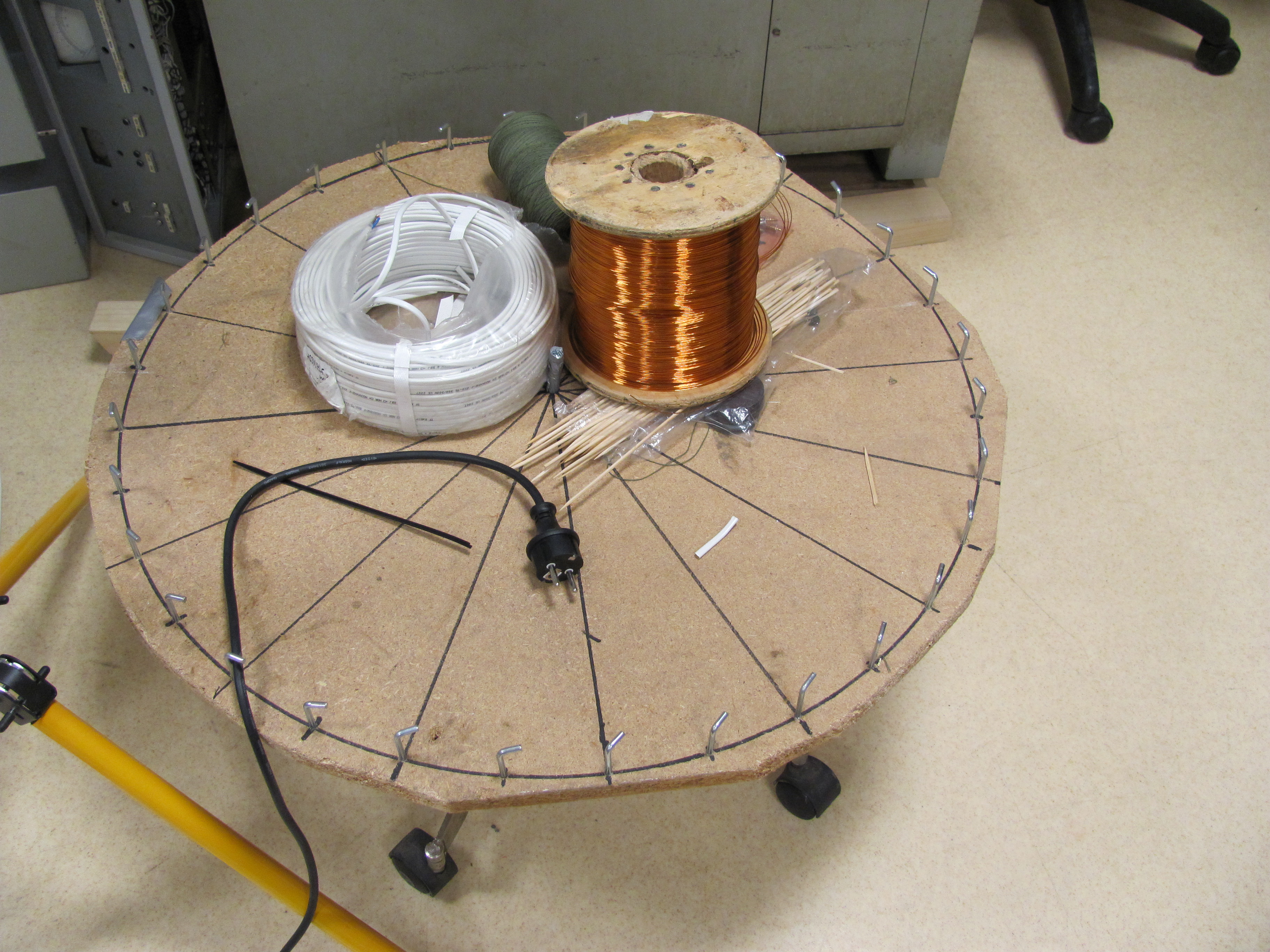 Winding facility for big coils.